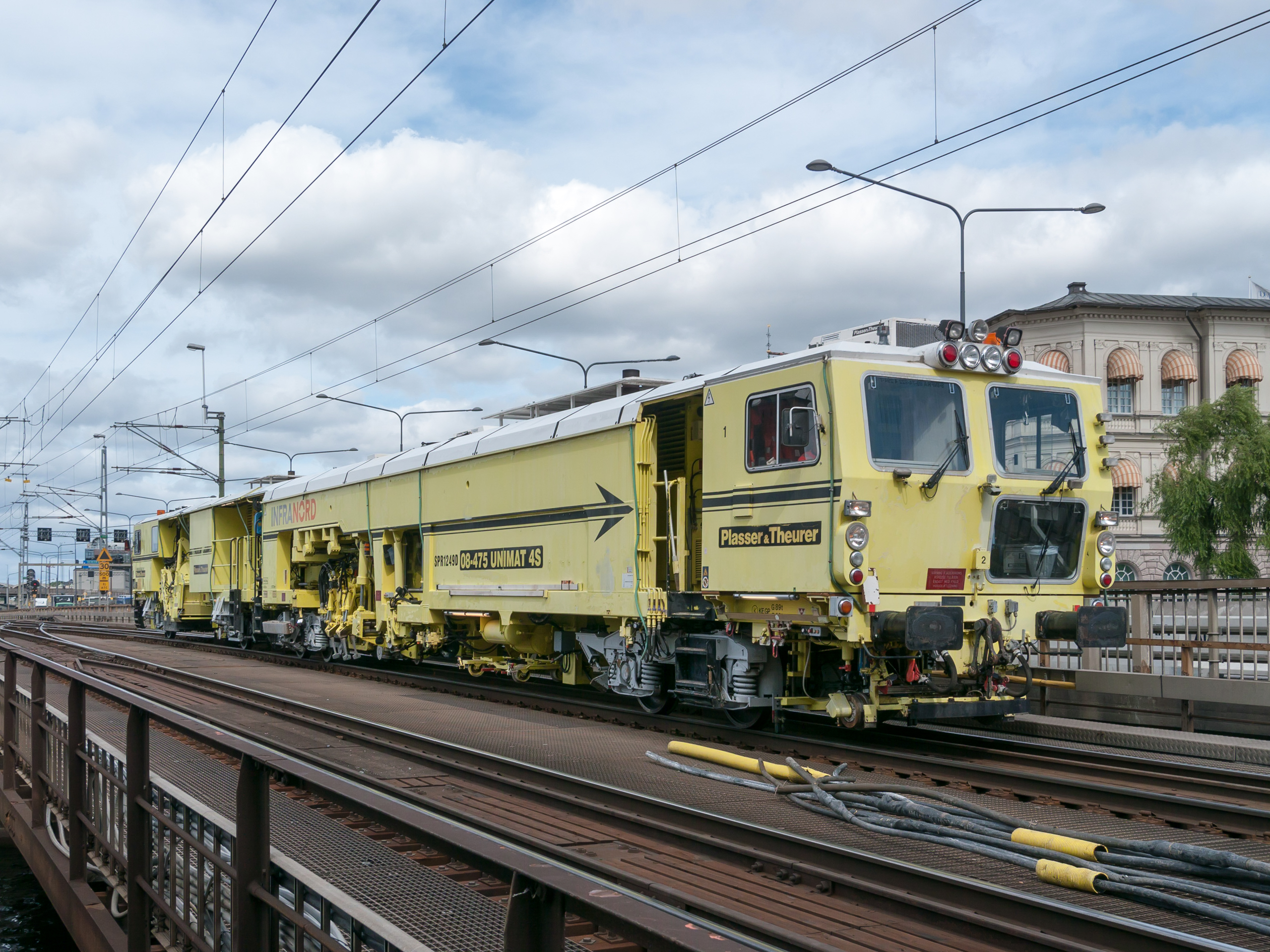 Infranord rail service vehicle on Norra järnvägsbron, Stockholm